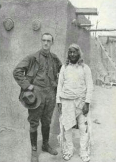 Neil M. Judd, Leader of the National Geographic Society Expedition, and Santiago Nahnjo, Governor of Santa Clara Pueblo some time around 1909.